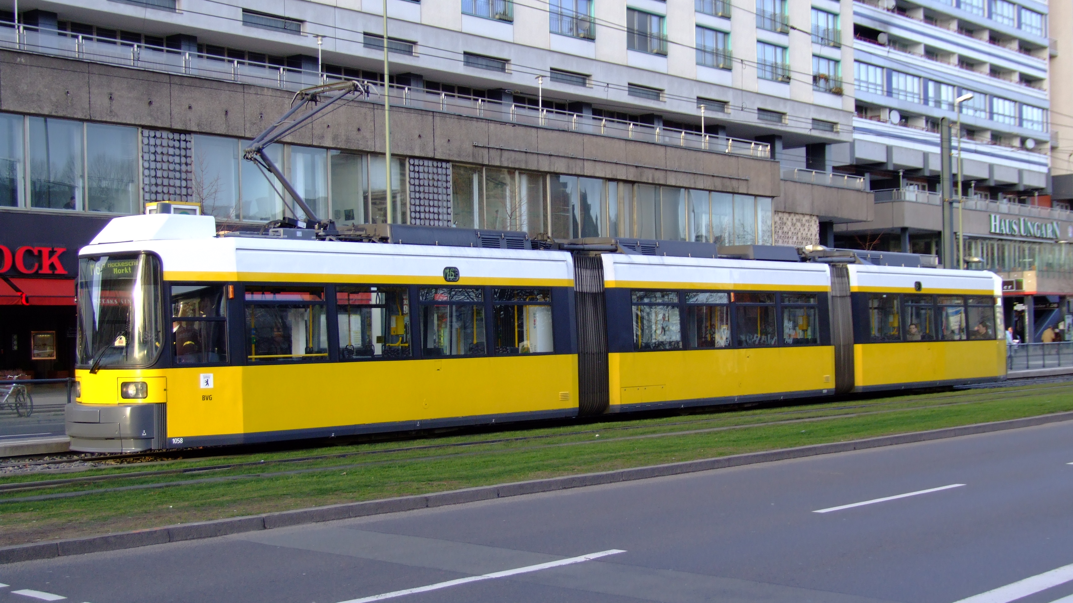 Tram M6 car 1058 BVG at Berlin